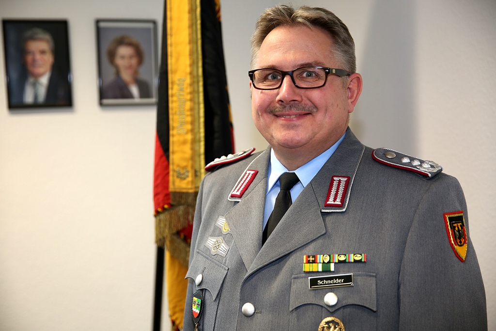 Colonel i.G. Adolf T. Schneider during a military exercise, 2016.